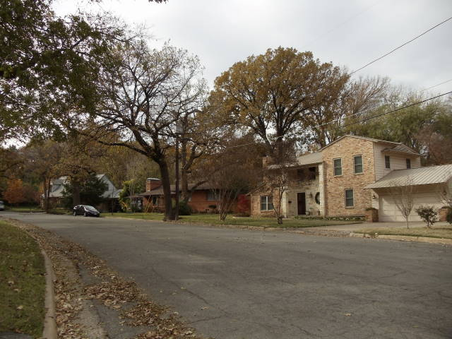 Kessler Park Historic District